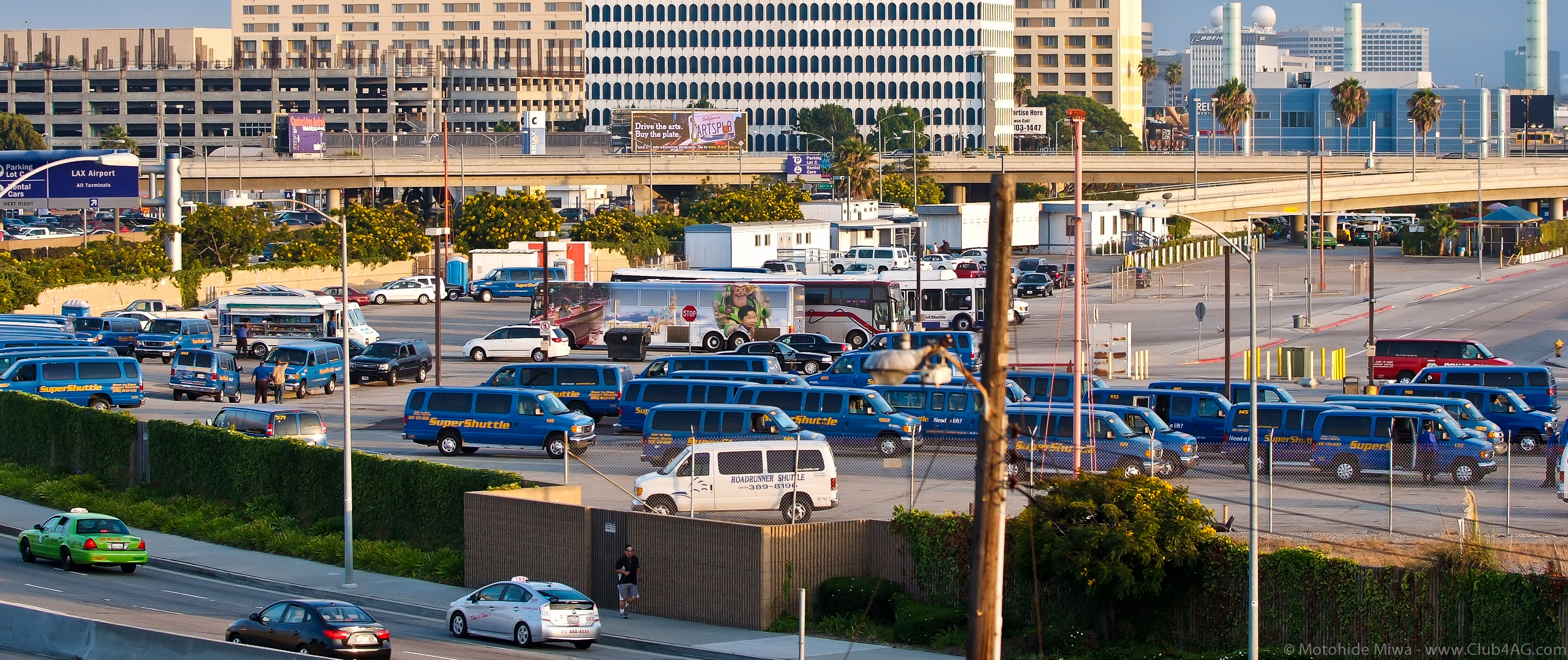 Super Shuttles